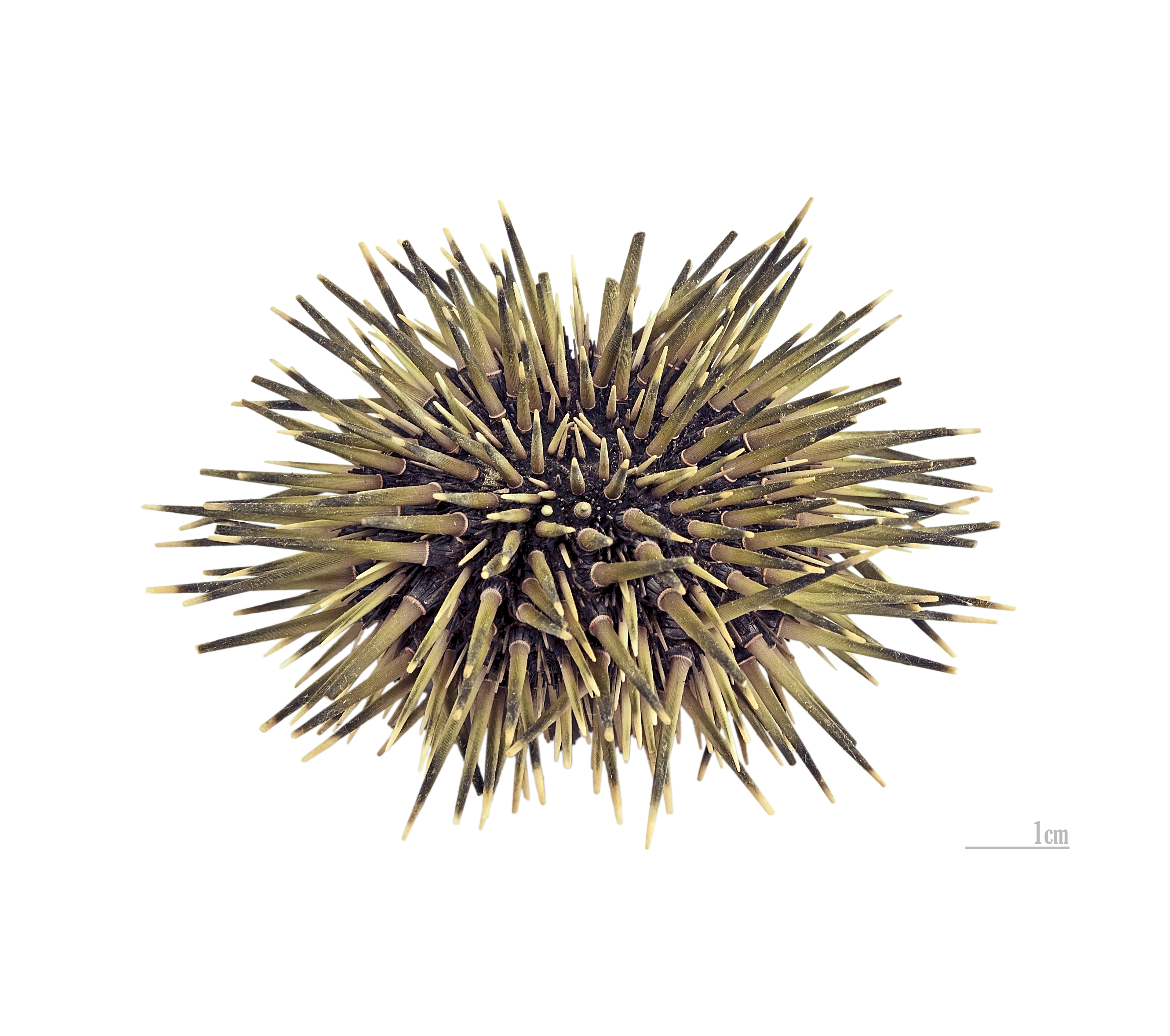 Burrowing urchin